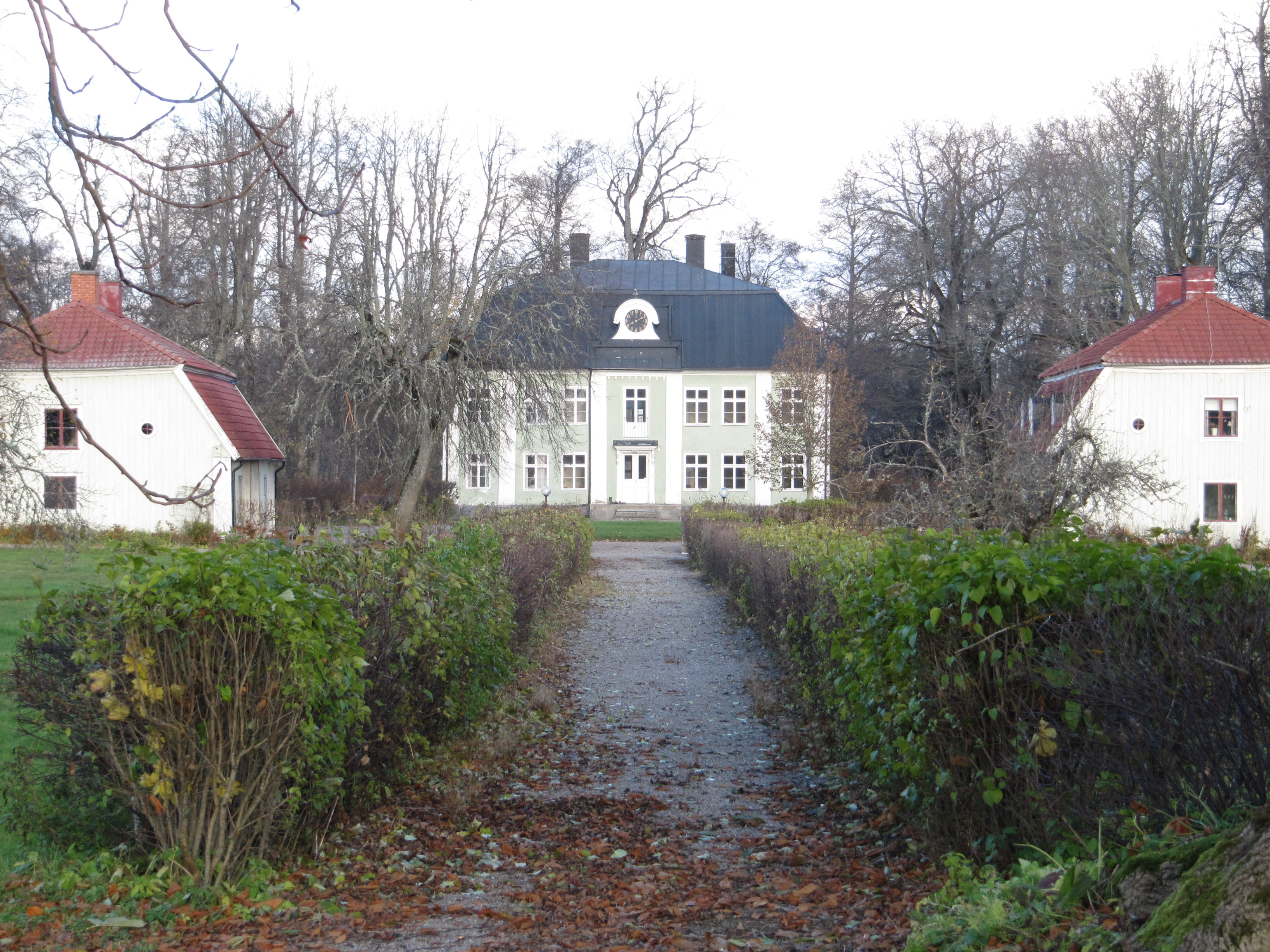 The manor Axbergshammar outside Örebro, Sweden